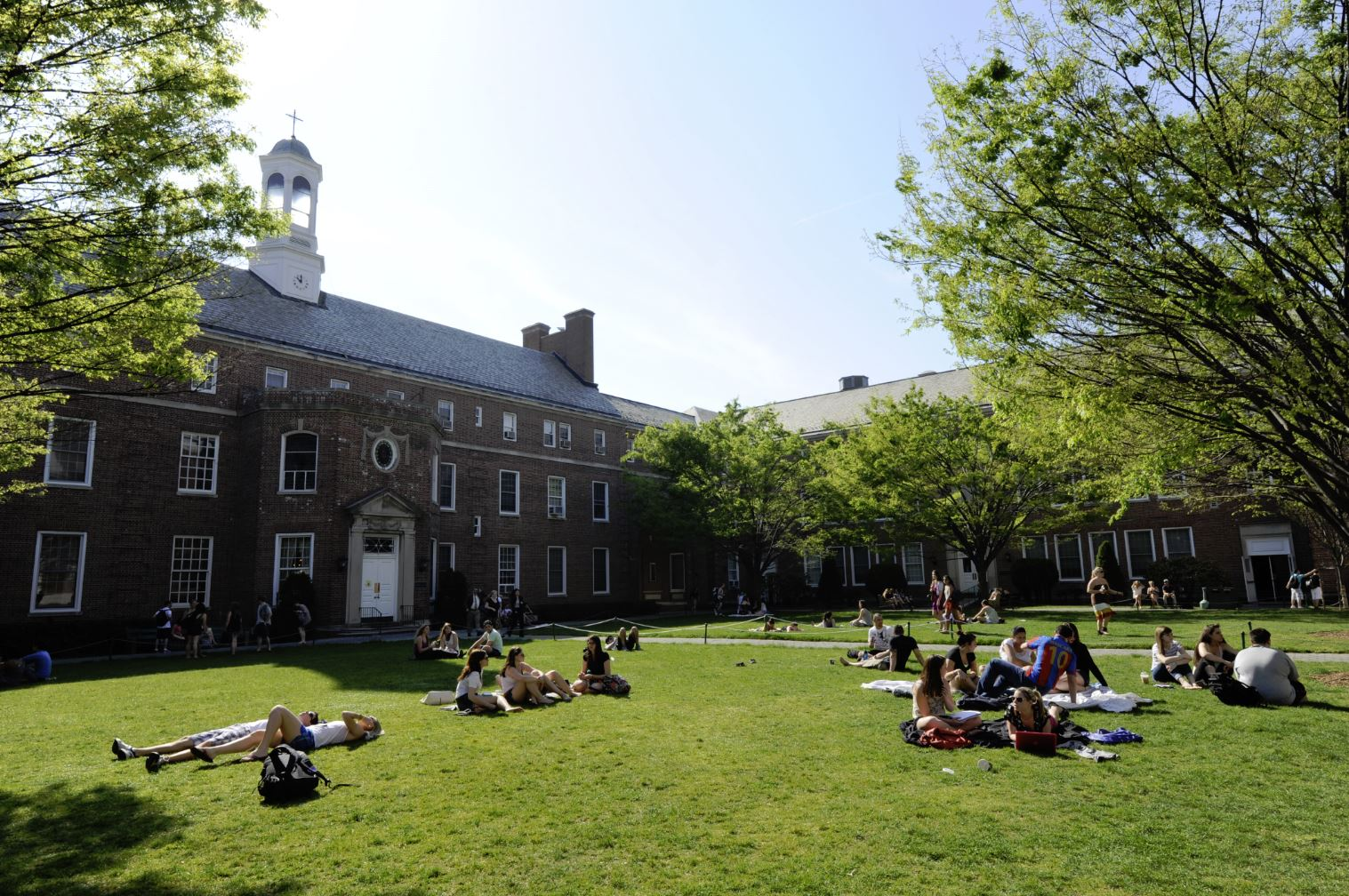 Quad in spring